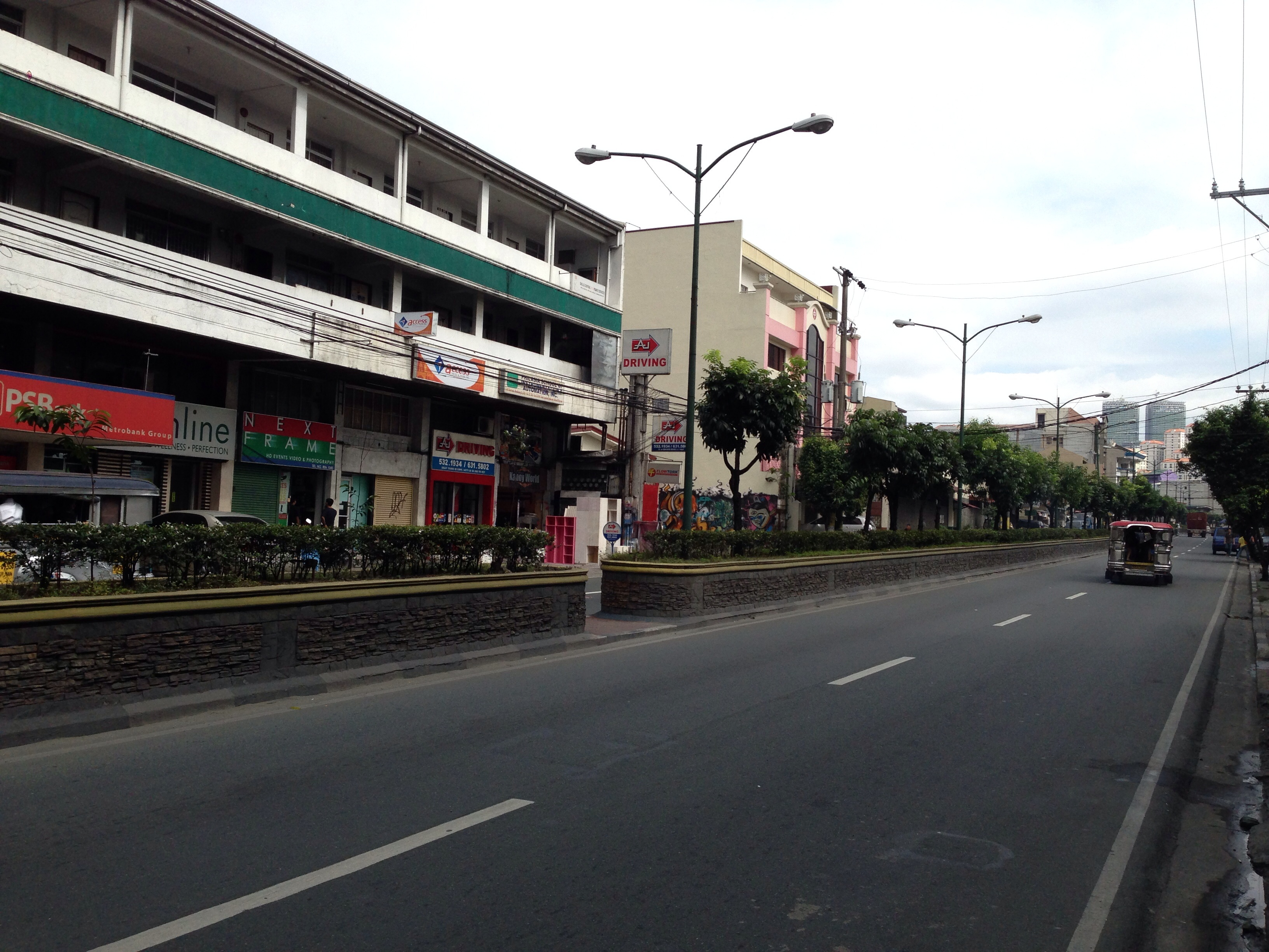 Boni Avenue near Club Mwah, Mandaluyong, Manila